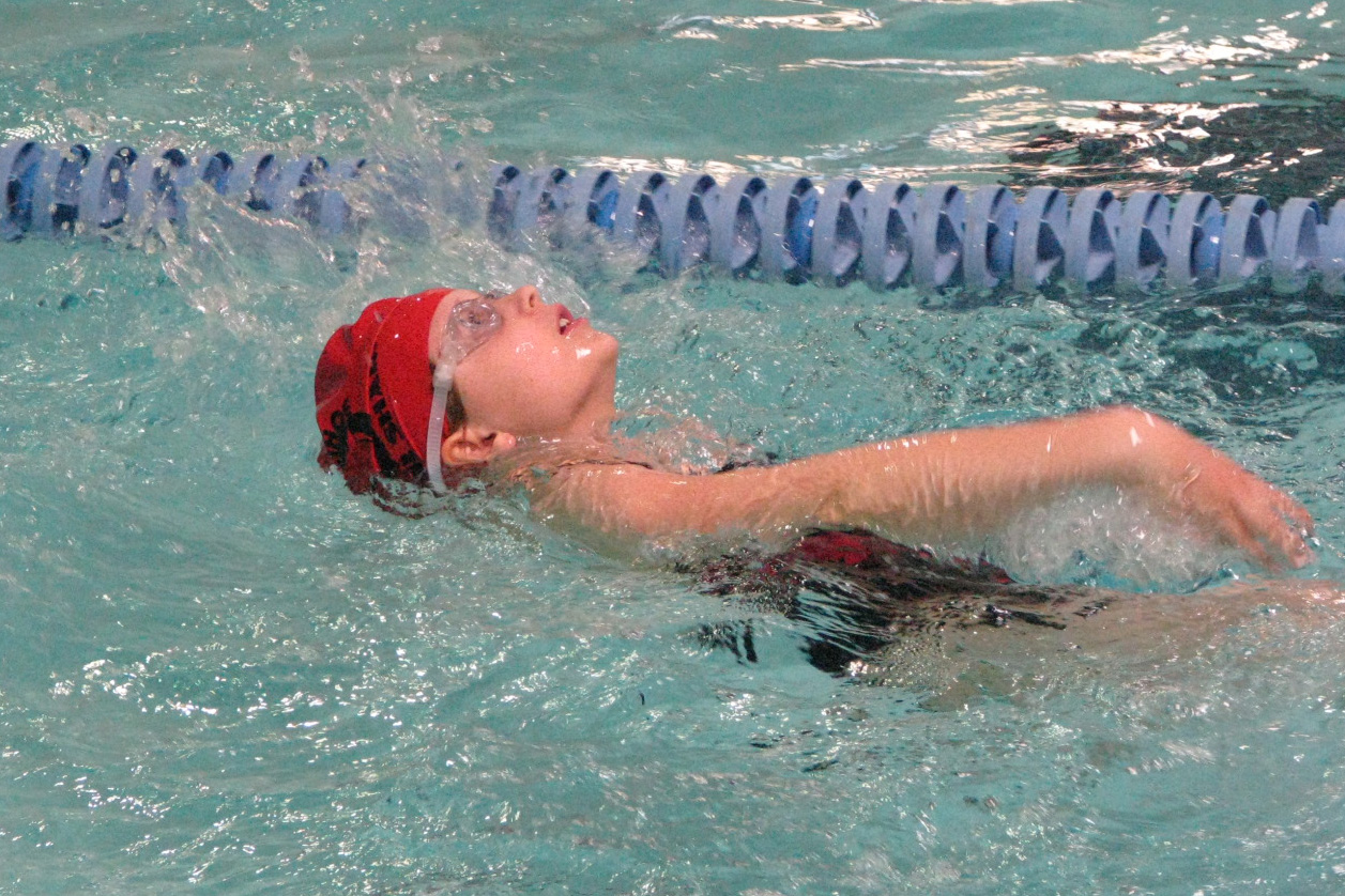 Kaya focusing on the ceiling as she warms up with the backstroke.